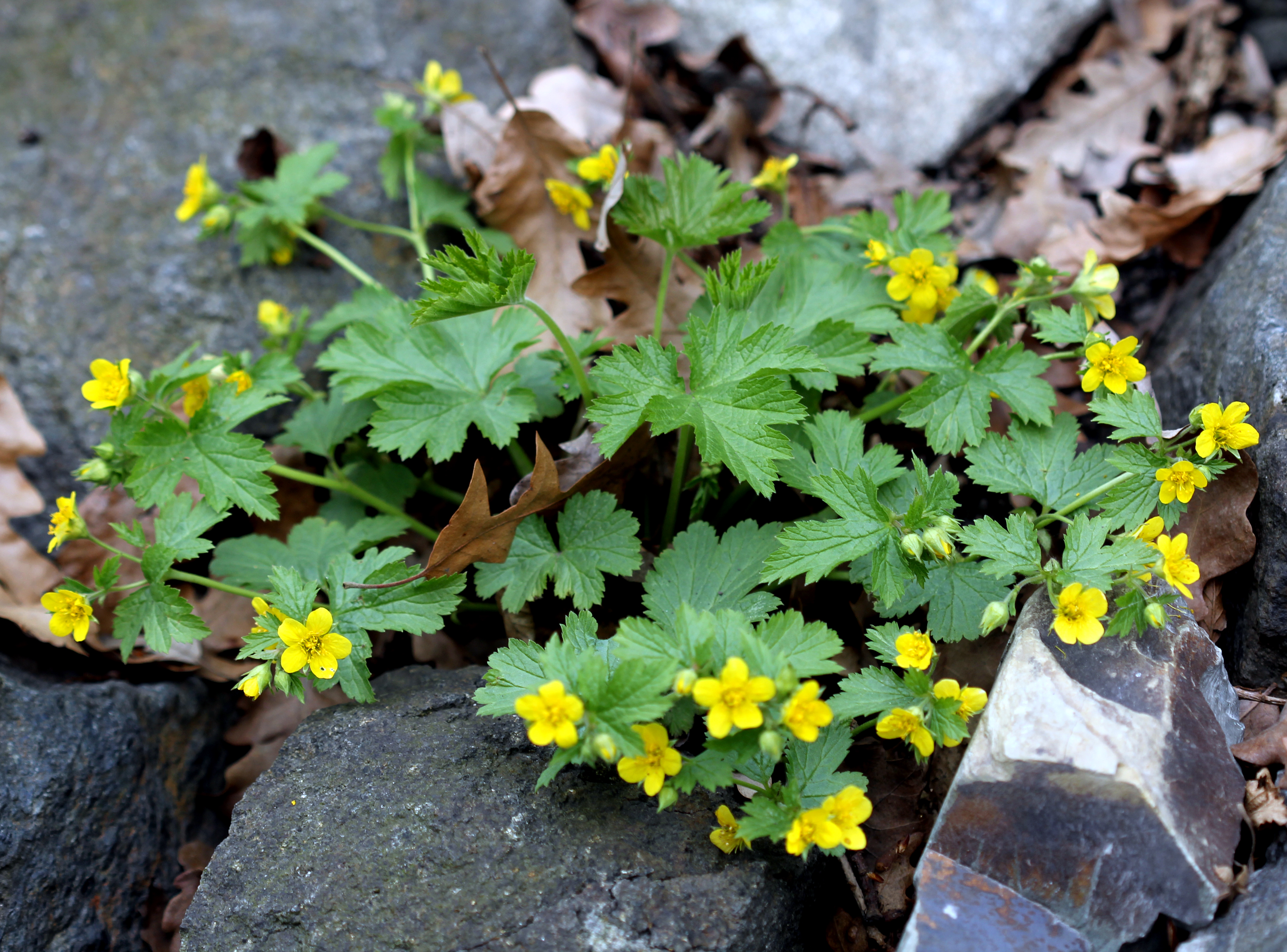 Flowering plants Waldsteinia geoides, (Waldsteinia geoides) from the Botanical Gardens of Charles University, Prague, Czech Republic